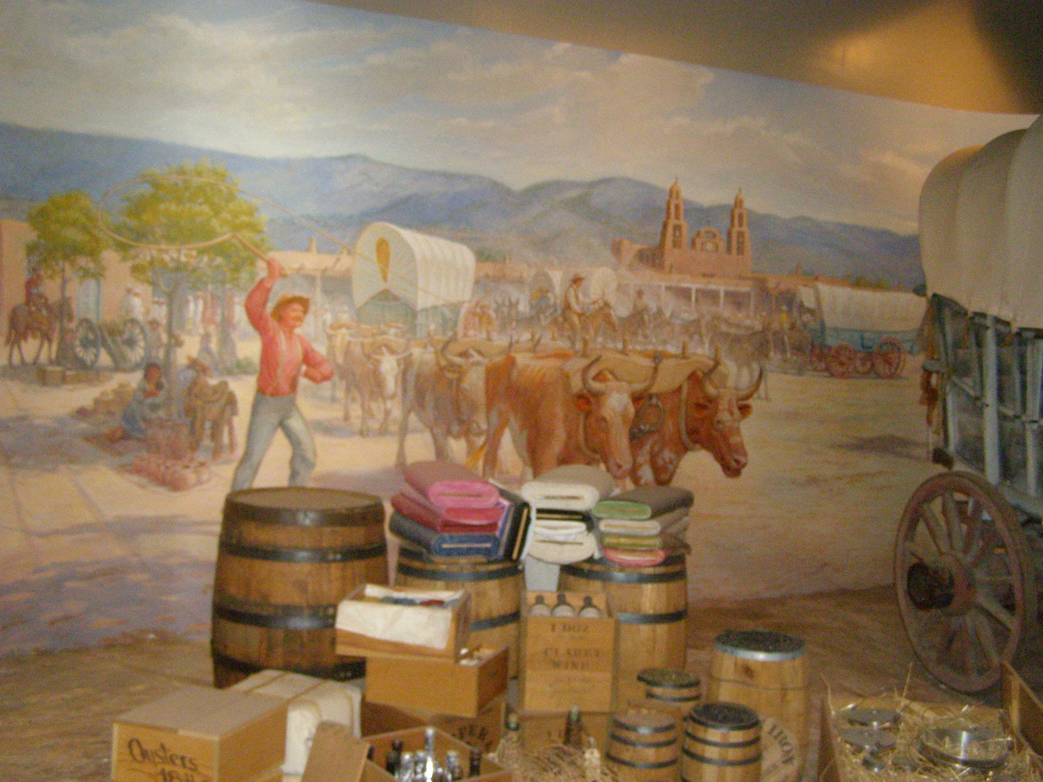 End of the trail in Santa Fe, New Mexico